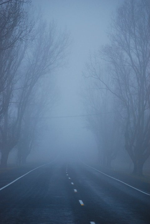 Entering Guyra through the fog on a Winter's morning.